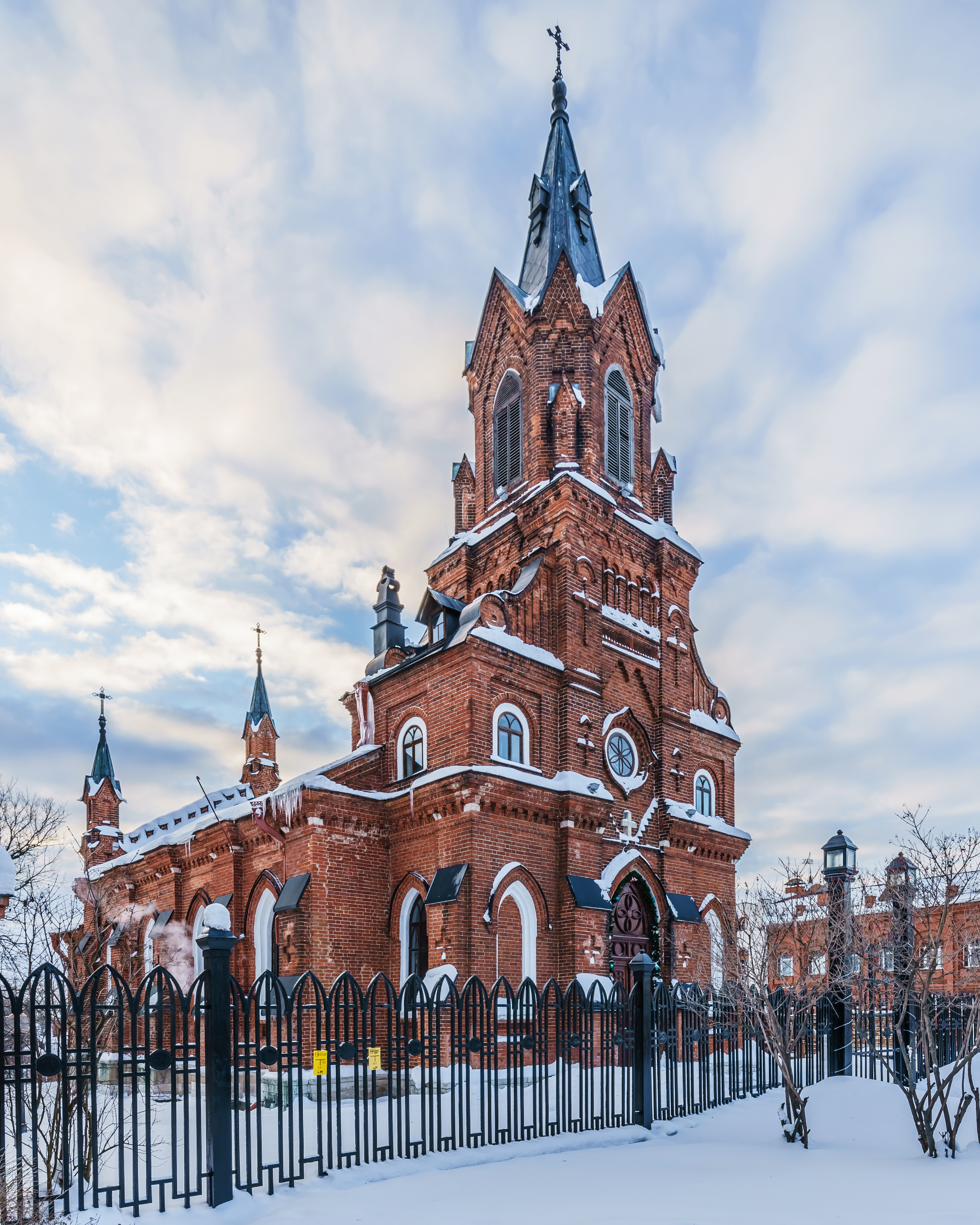 Catholic Church of Our Lady of the Rosary in Vladimir, Russia